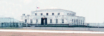 U.S. Bullion Depository (Gold Vault) at Ft. Knox, KY, USA.